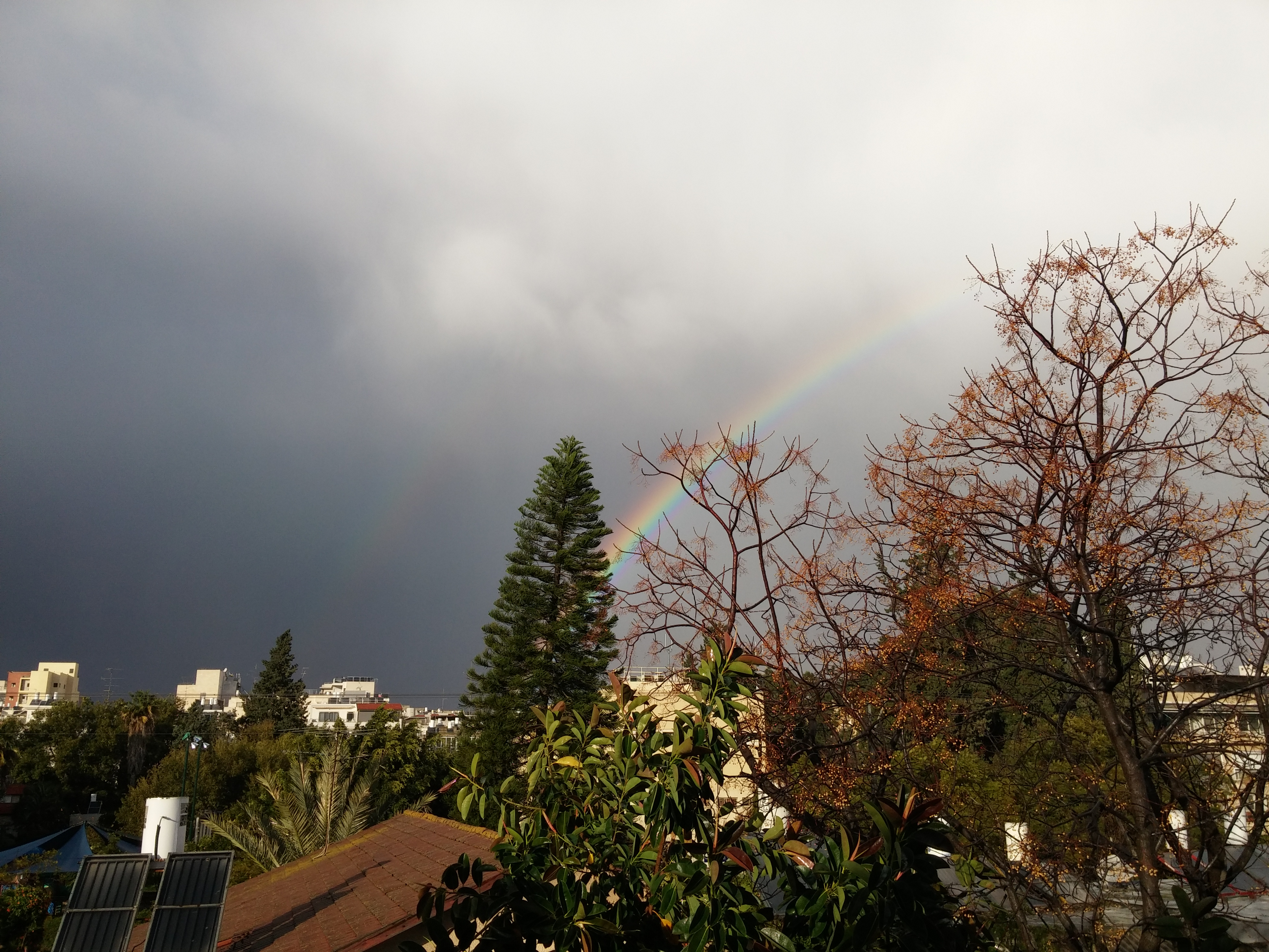 A double rainbow in Ramat Gan